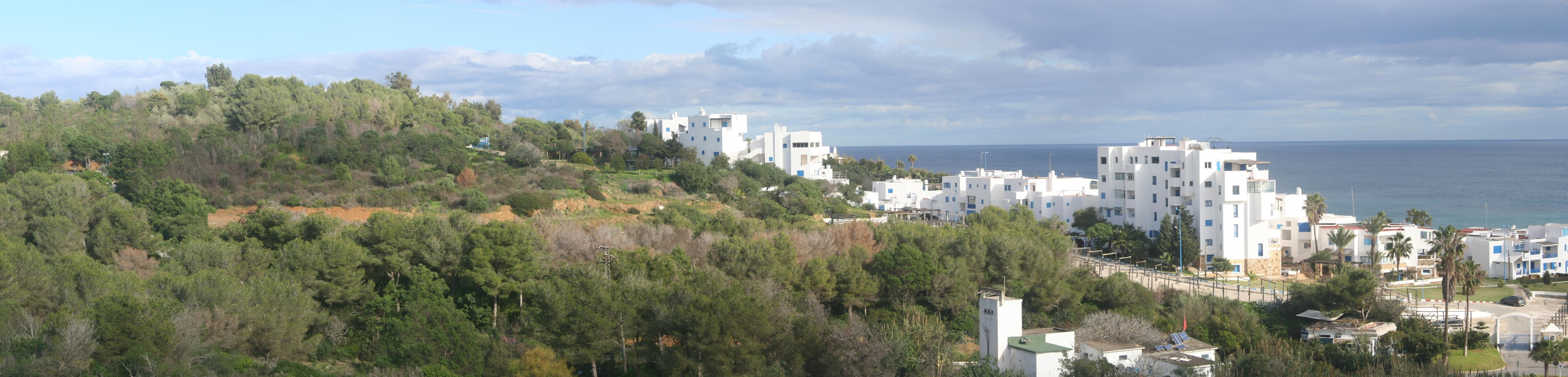 Cabo Negro, Morocco